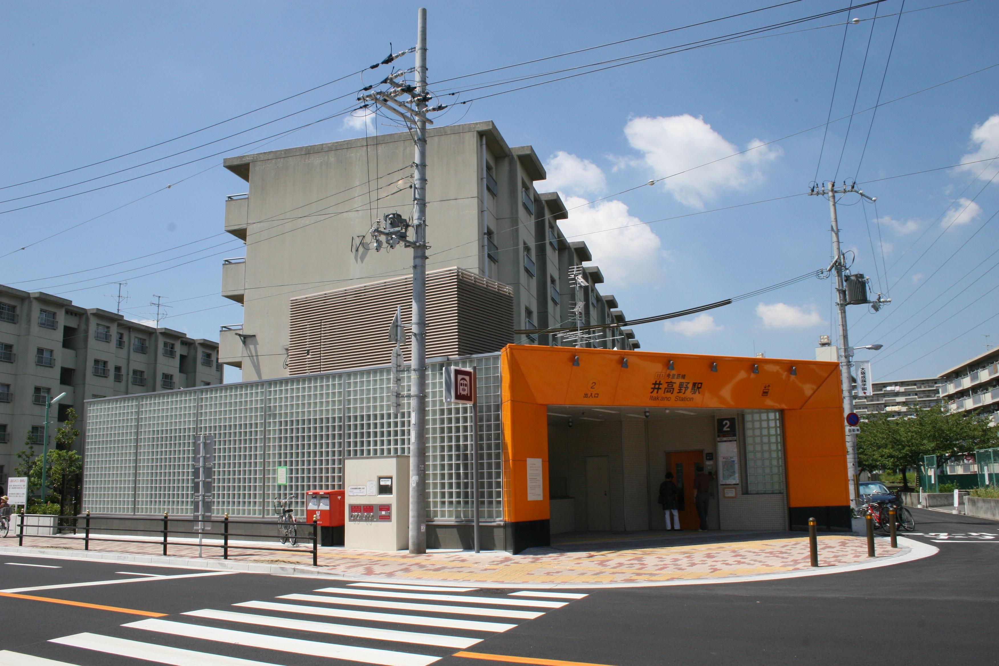 Entrance No. 2 of Itakano metro station, Osaka, Japan